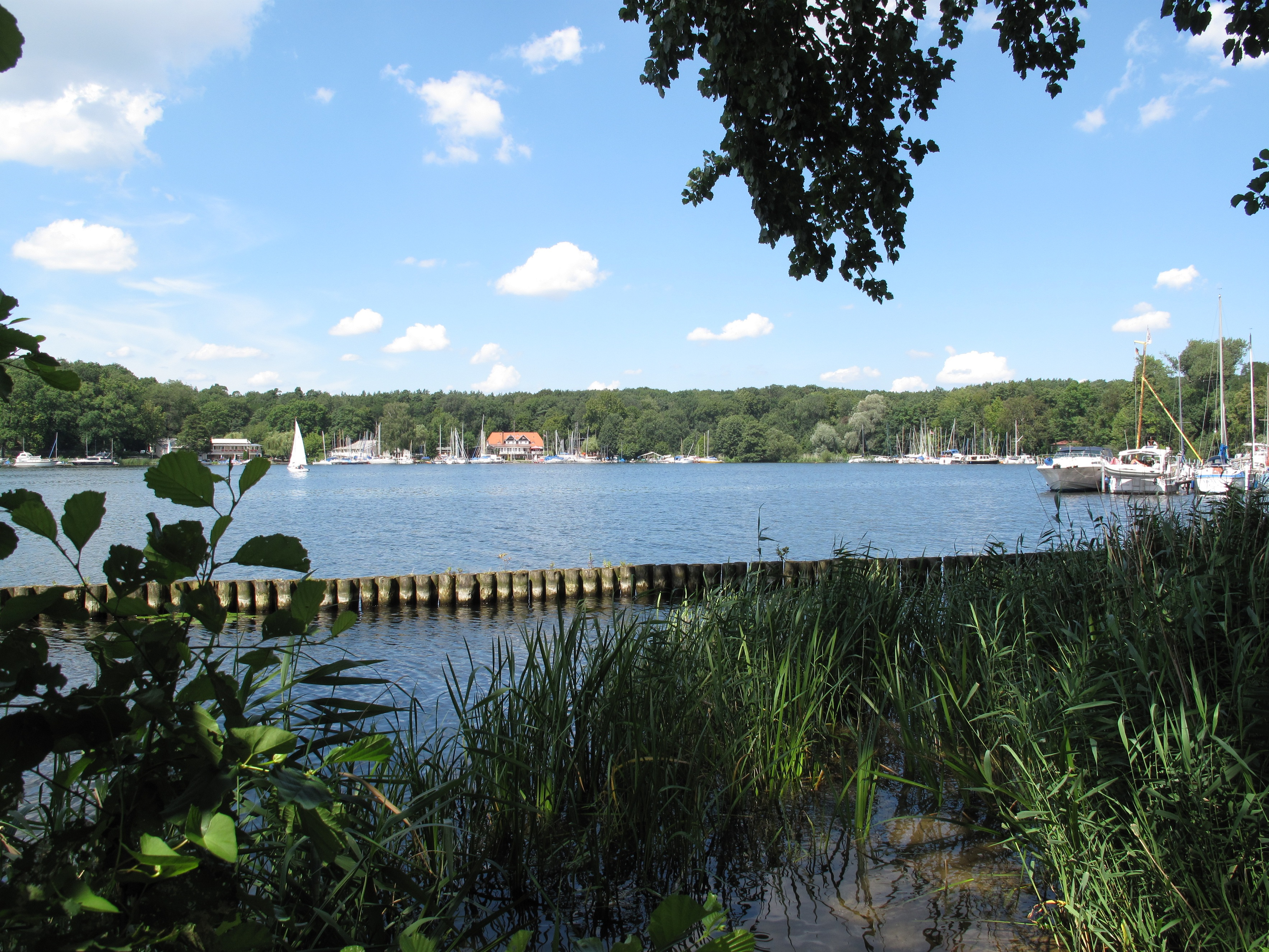 The Große Malchsee, the northernmost bay of the Lake Tegel in Berlin.